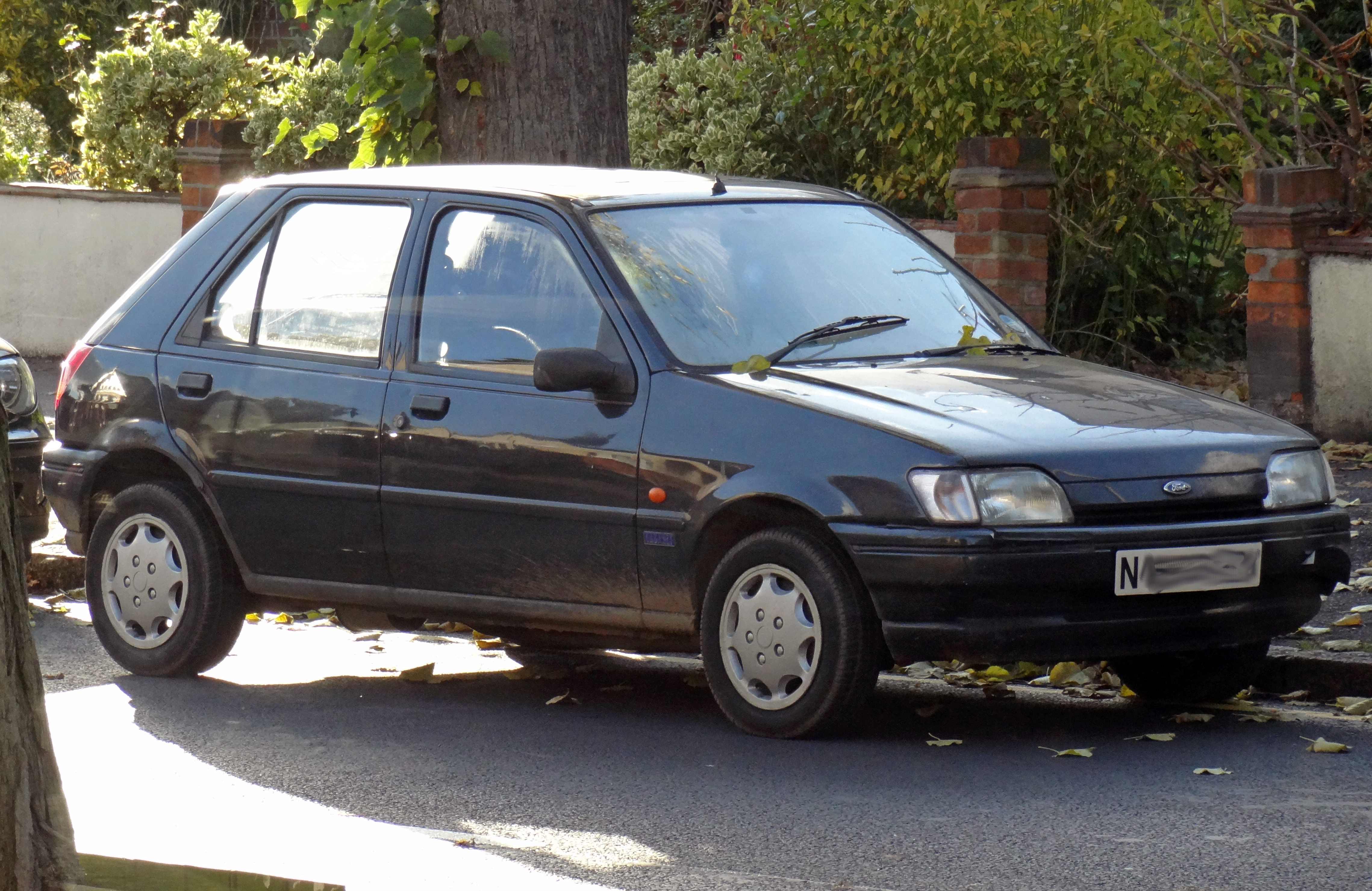 This is a Ford Fiesta MK3 model N reg.